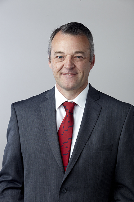 Professor Steven Armes, Royal Society Fellow elected 2014. Attribution: The Royal Society